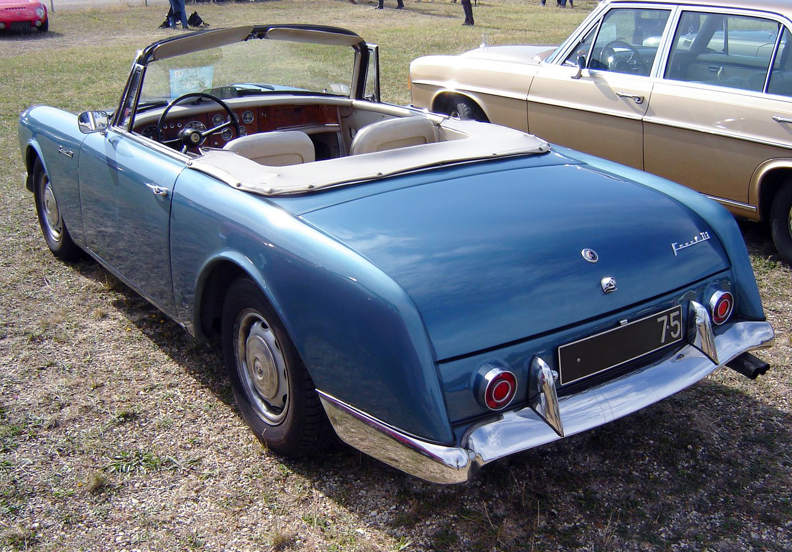 Facel III convertible at Linas-Montlhéry, 2009